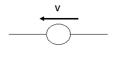 circuit diagram voltage generator